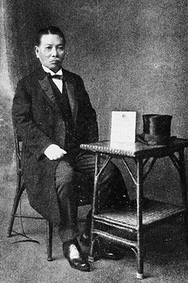 Yai Sakizō